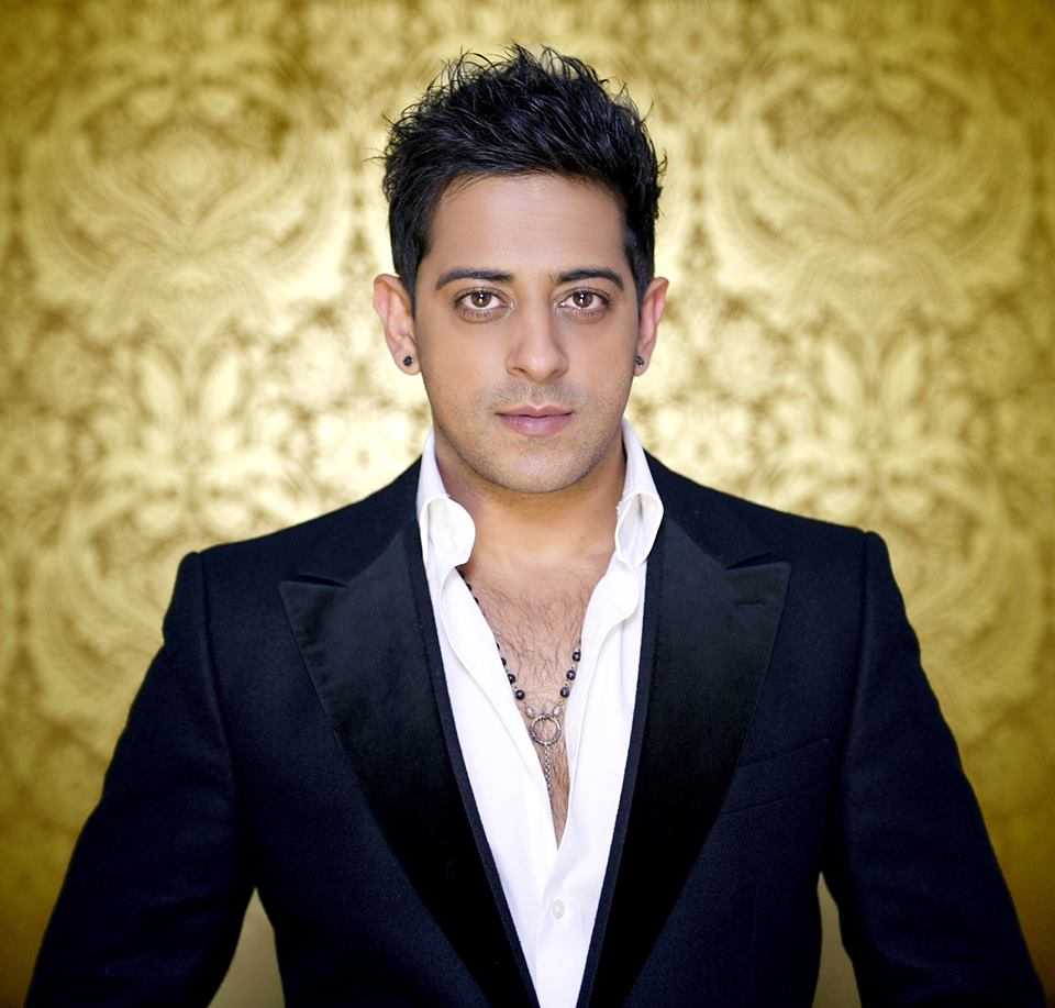 Dj Vix, london based Punjabi Bhangra music producer.